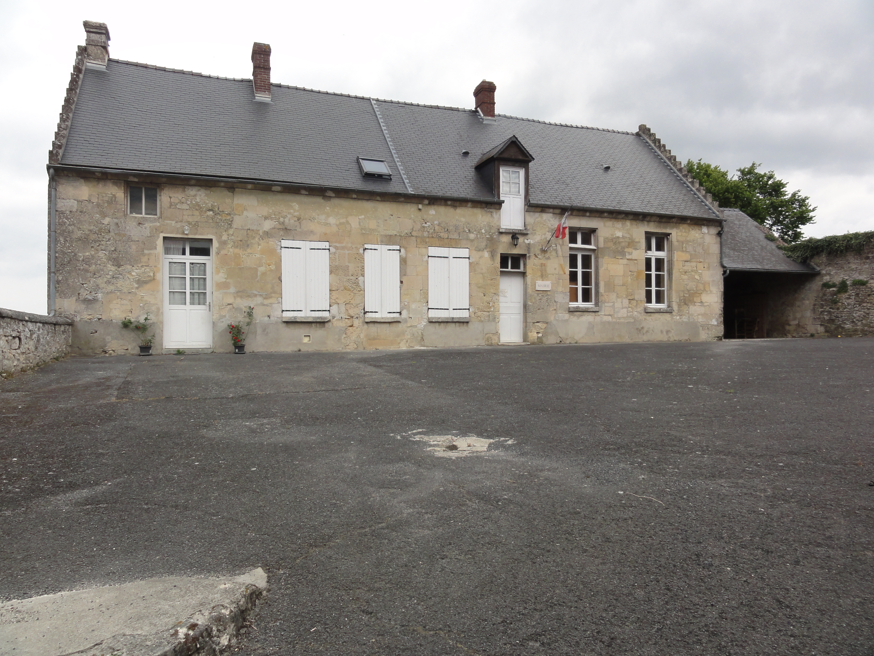 Mortefontaine (Aisne) mairie